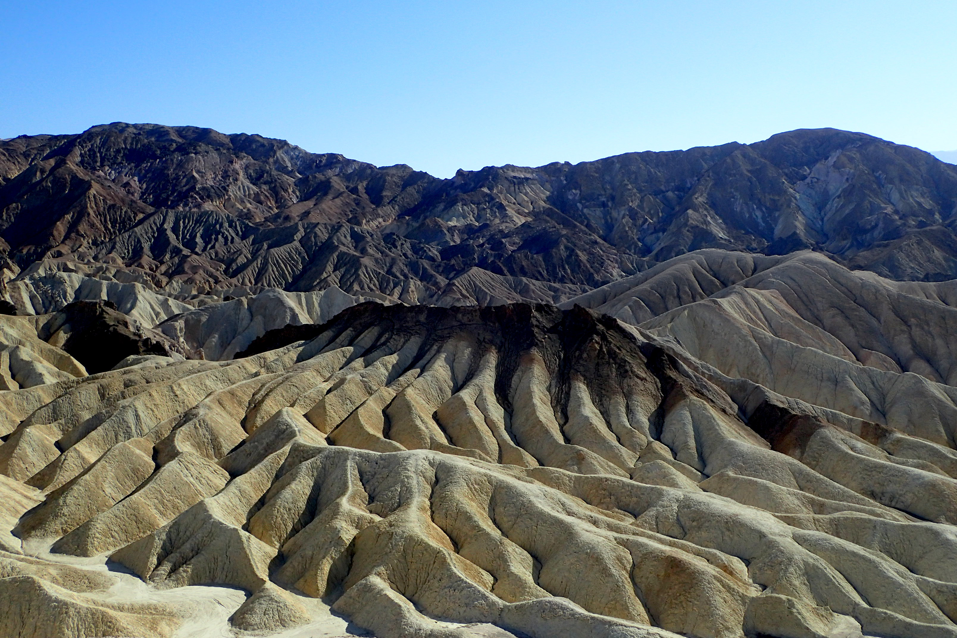 Zabriskie Point in Death Valley National Park, California, USA